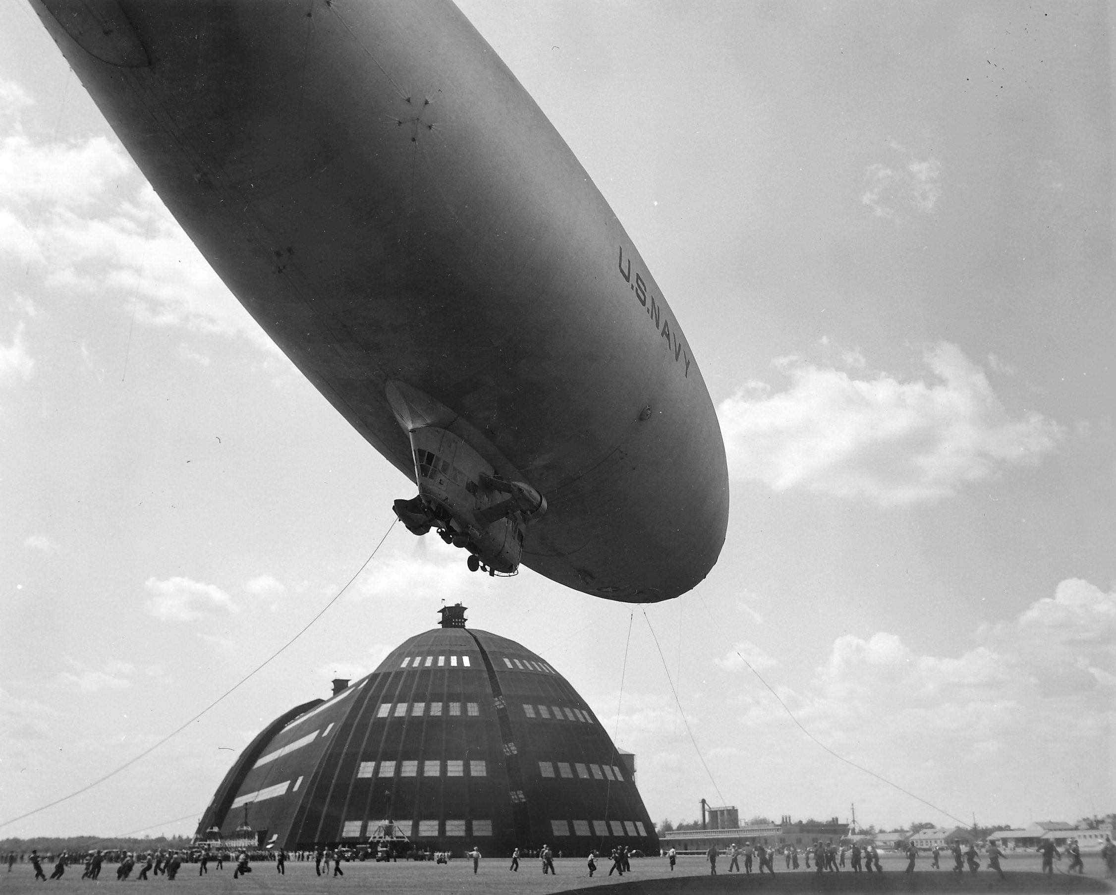 The U.S. Navy blimp K-38 making an emergency landing at the Naval Air Station South Weymouth, Massachusetts (USA), on 20 August 1943.